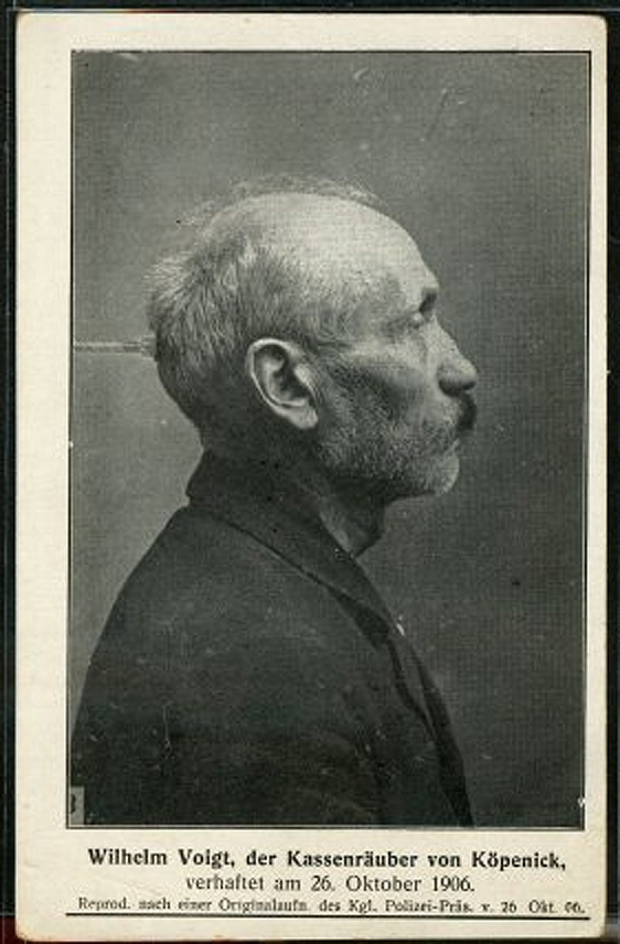 Wilhelm Voigt, the Captain of Köpenick, photo by the Prussian police